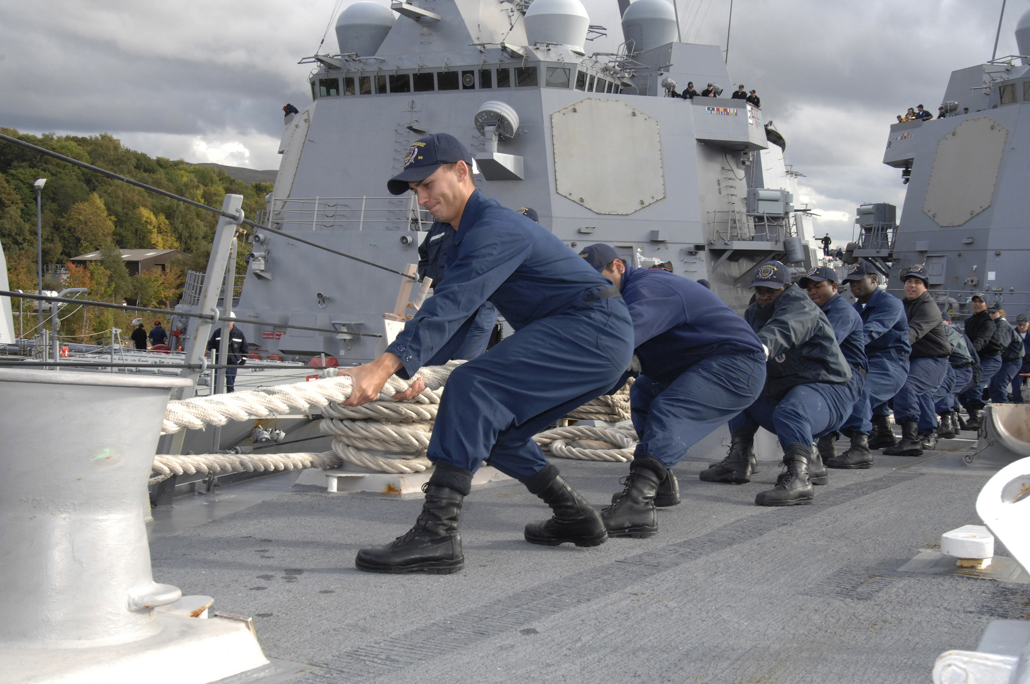 FASLANE, Scotland (Sep. 30, 2010) Sailors aboard the guided-missile destroyer USS Bainbridge (DDG 96) haul in a mooring line while mooring the ship in Faslane, Scotland. Bainbridge is preparing to participate in Joint Warrior 10-2, a multinational exercise designed to improve interoperability between allied navies and prepare participating crews to conduct combined operations during deployment. (U.S. Navy photo by Mass Communication Specialist 1st Class Molly A. Burgess/Released)